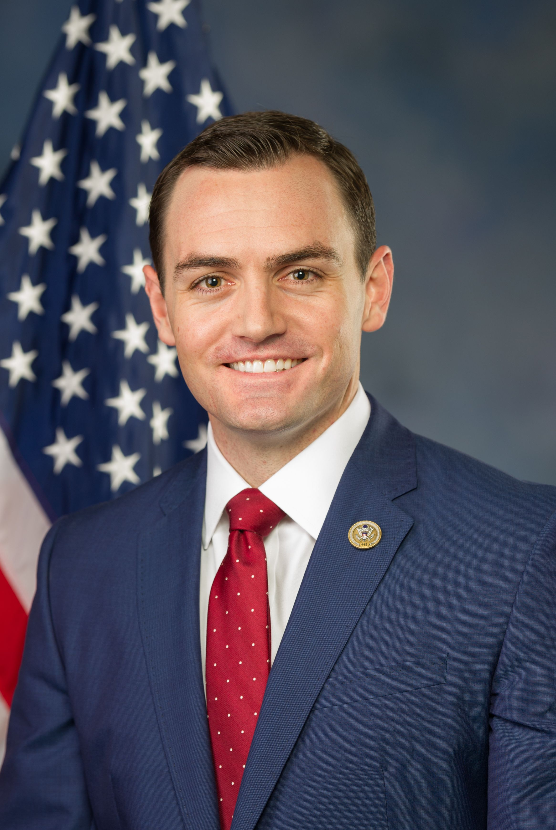 Rep. Mike Gallagher's (WI-8) Official Portrait as of 2017